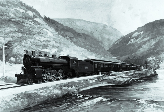 Photograph "Ocean Limited", Matapedia Valley, NB, painted photograph by J. D. Kelly, about 1915 Wm. Notman & Son About 1915, 20th century Silver salts on glass - Gelatin dry plate process 20 x 25 cm